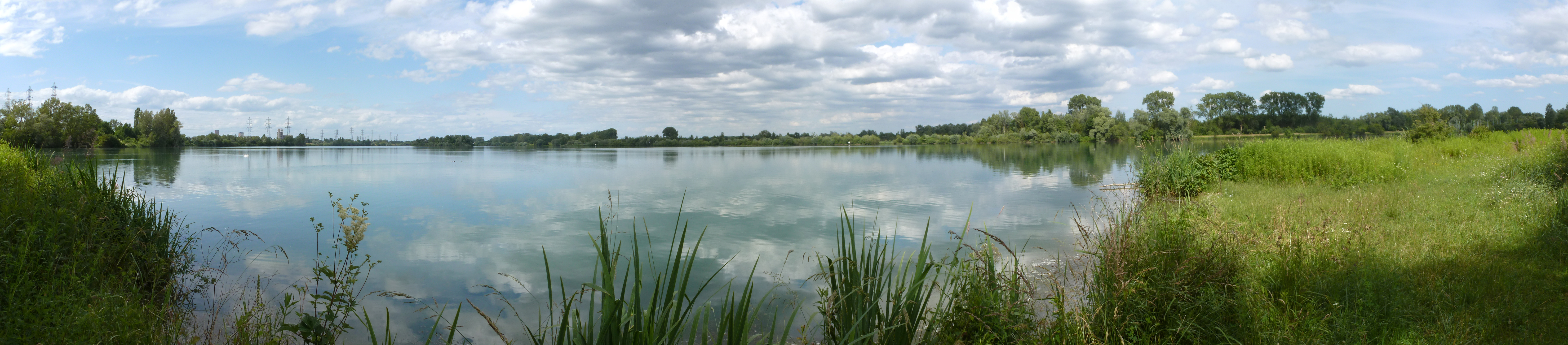 Panorama of Rhine from the Rohrschollen (a nature reserve in Strasbourg).